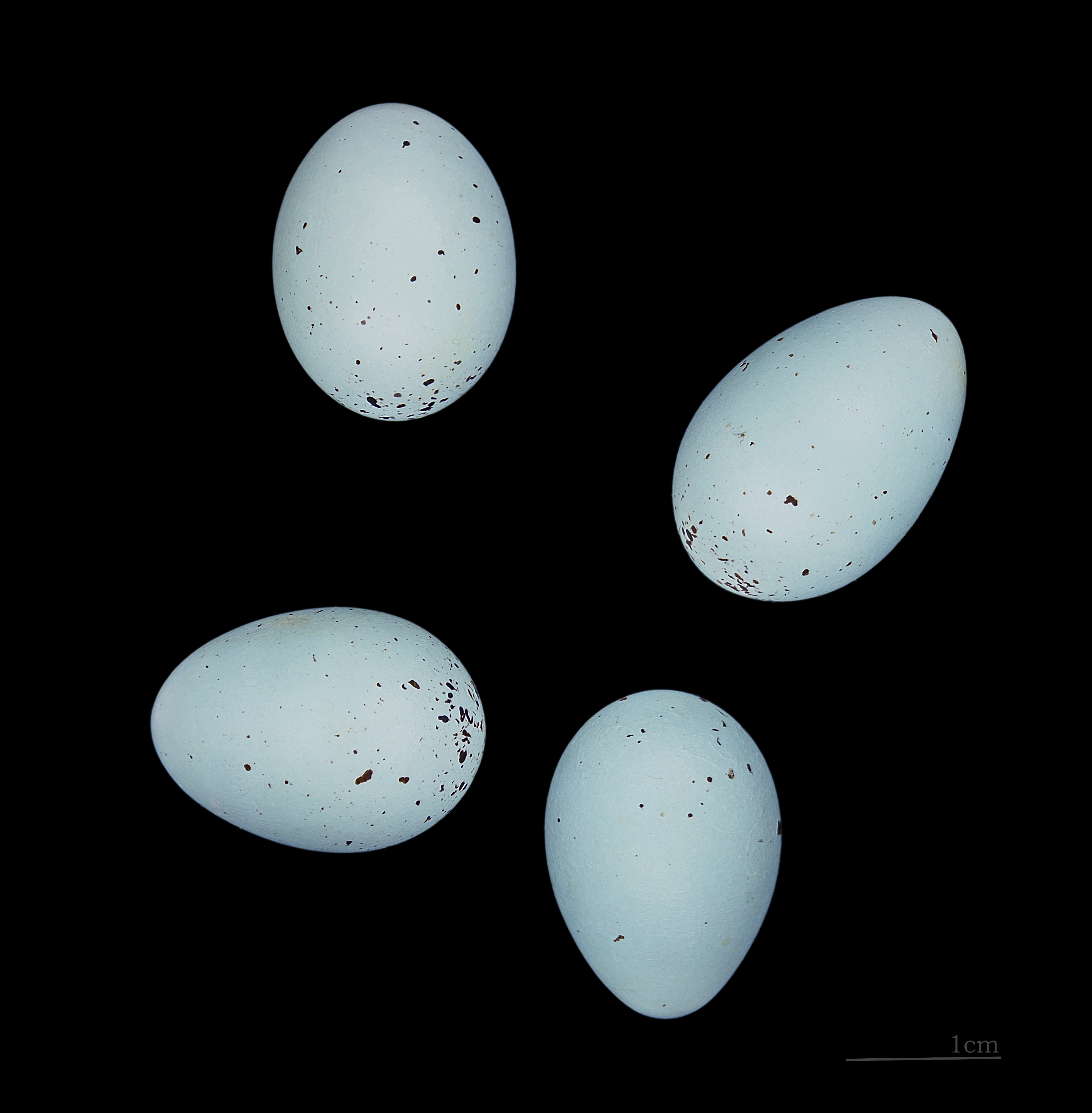 Egg of Common Rosefinch. Collection of Perrin de Brichambaut.